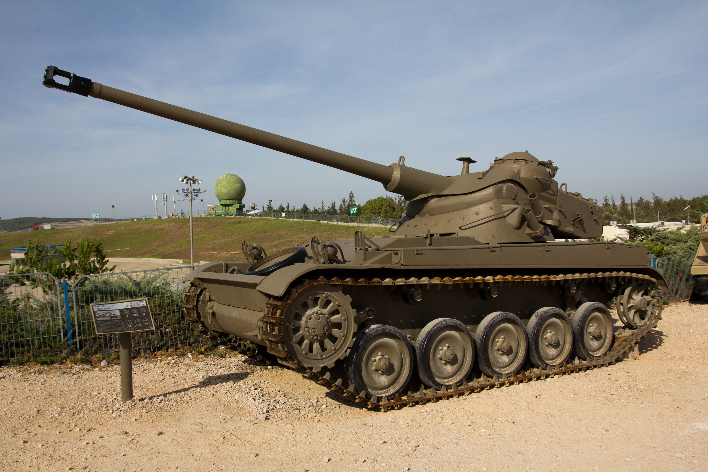 Israeli AMX-13 at the Yad LaShiryon armor museum at Latrun, Israel